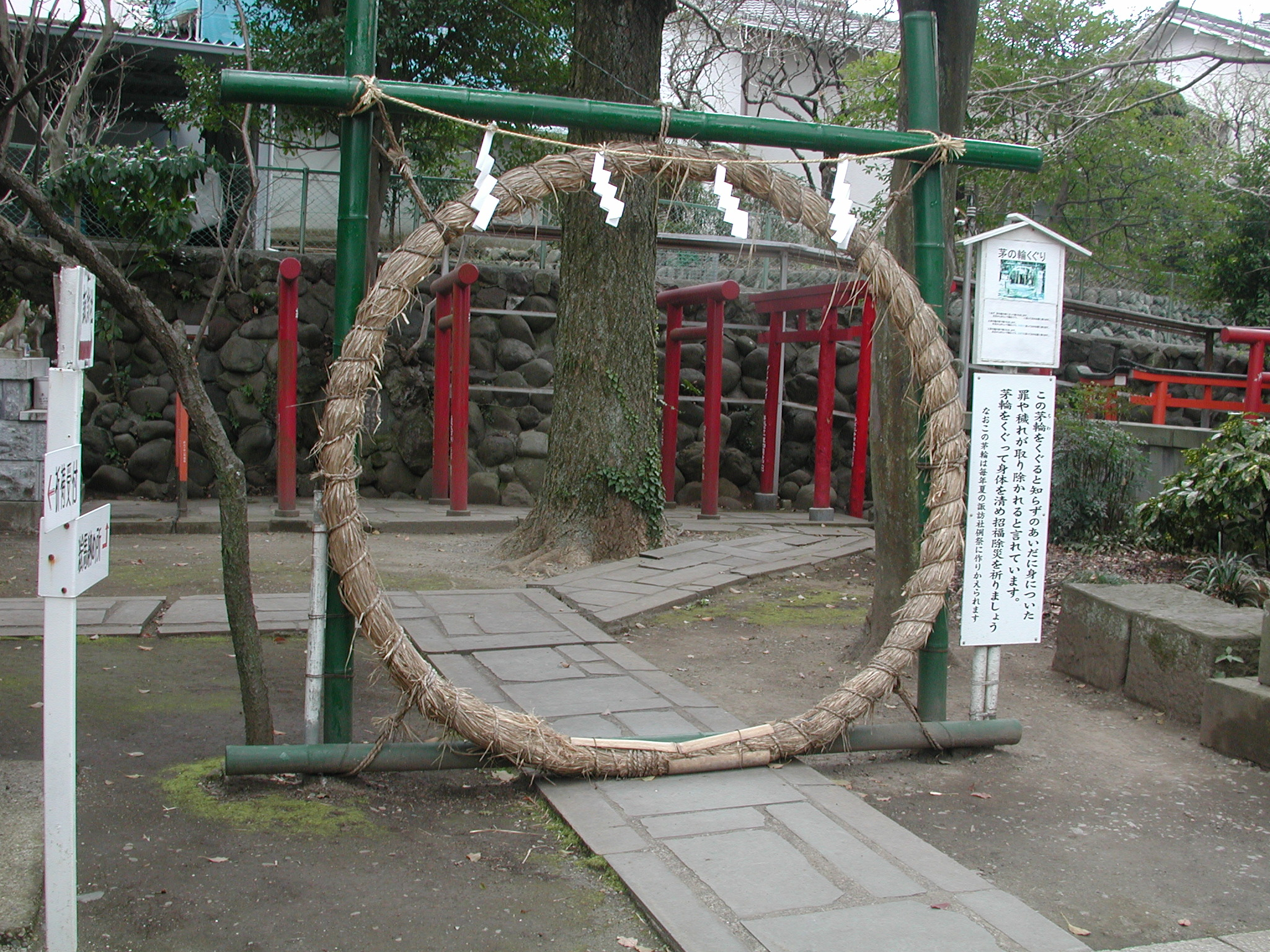 Chinowa in Sugawara Jinja (Kouzu, Odawara-shi, Kanagawa)